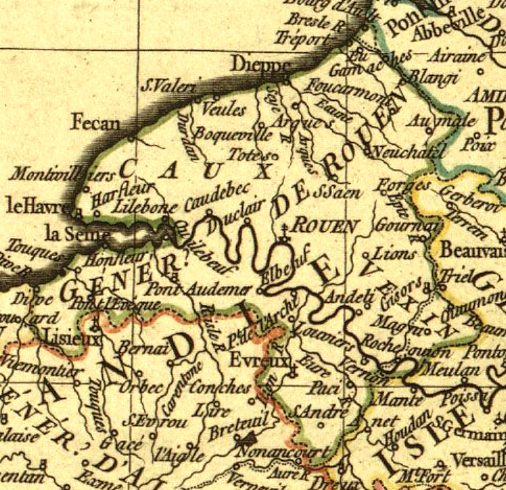 Map of the généralité of Rouen